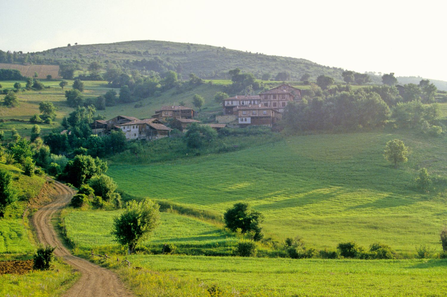 Village north of Kastamonu, Turkey